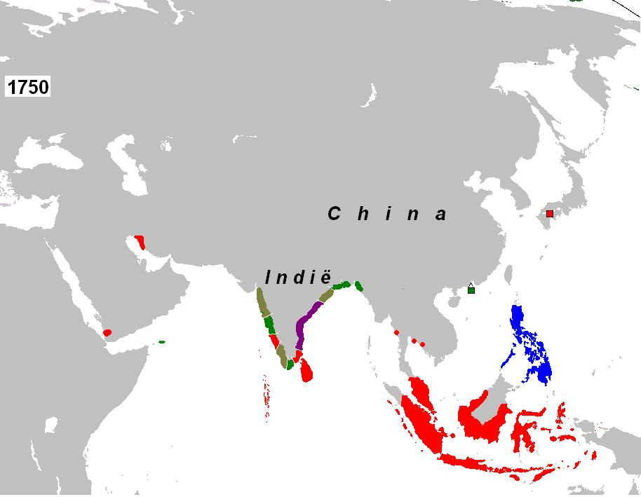 Colonisation of Asia in 1750